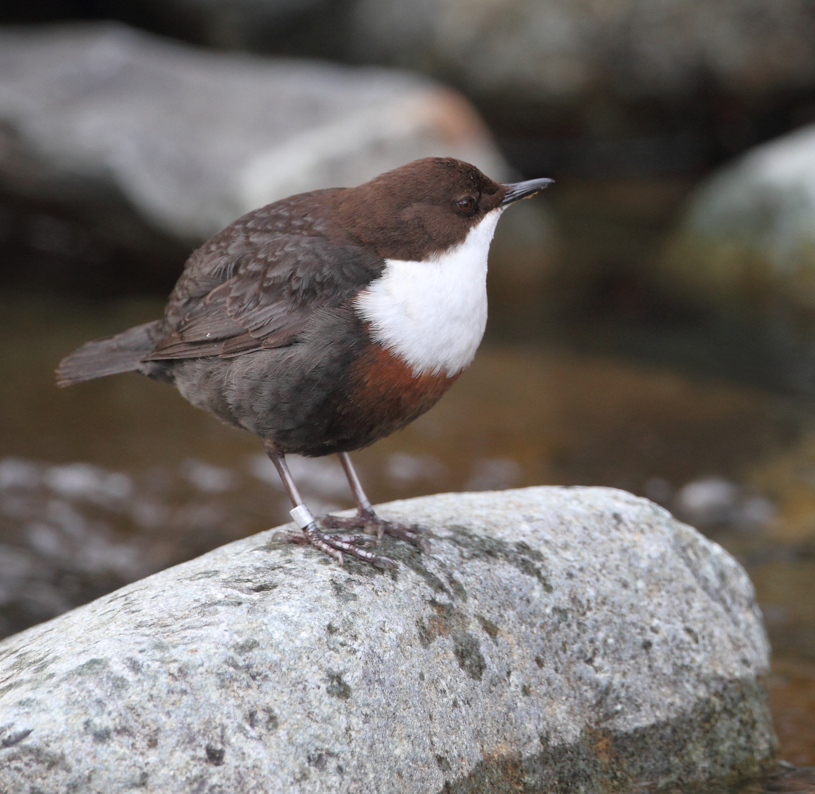 Image of Cinclus cinclus taken at Llanfairfechan, North Wales coast.